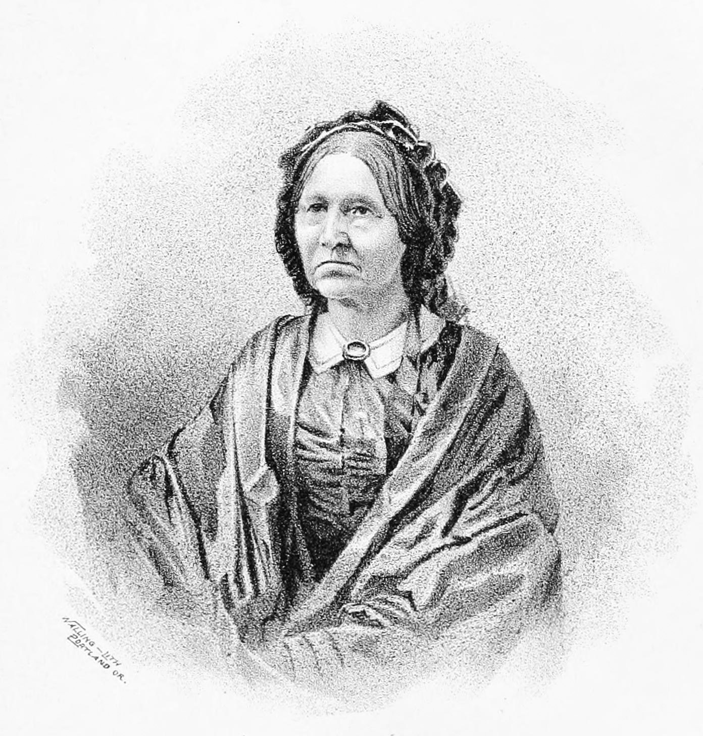 Portrait of Mary Pierce "Polly" Hart Lane (March 16, 1802–August 16, 1870), Mrs. General Joseph Lane.